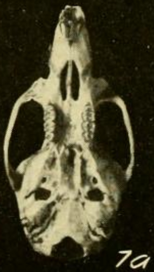 Skull of Oryzomys bombycinus bombycinus (now Transandinomys bolivaris), seen from below. This is specimen USNM 171103, an adult female from Cerro Azul, Panama.